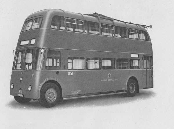 A 1954 of a Sunbeam double-decker trolleybus. It had an overall length of 30 feet. This one was owned by Walsall Corporation, as can be seen. By this time Guy had acquired the Sunbeam Trolleybus Company Ltd (1948), and the two companies combined created the largest British Trolleybus group.